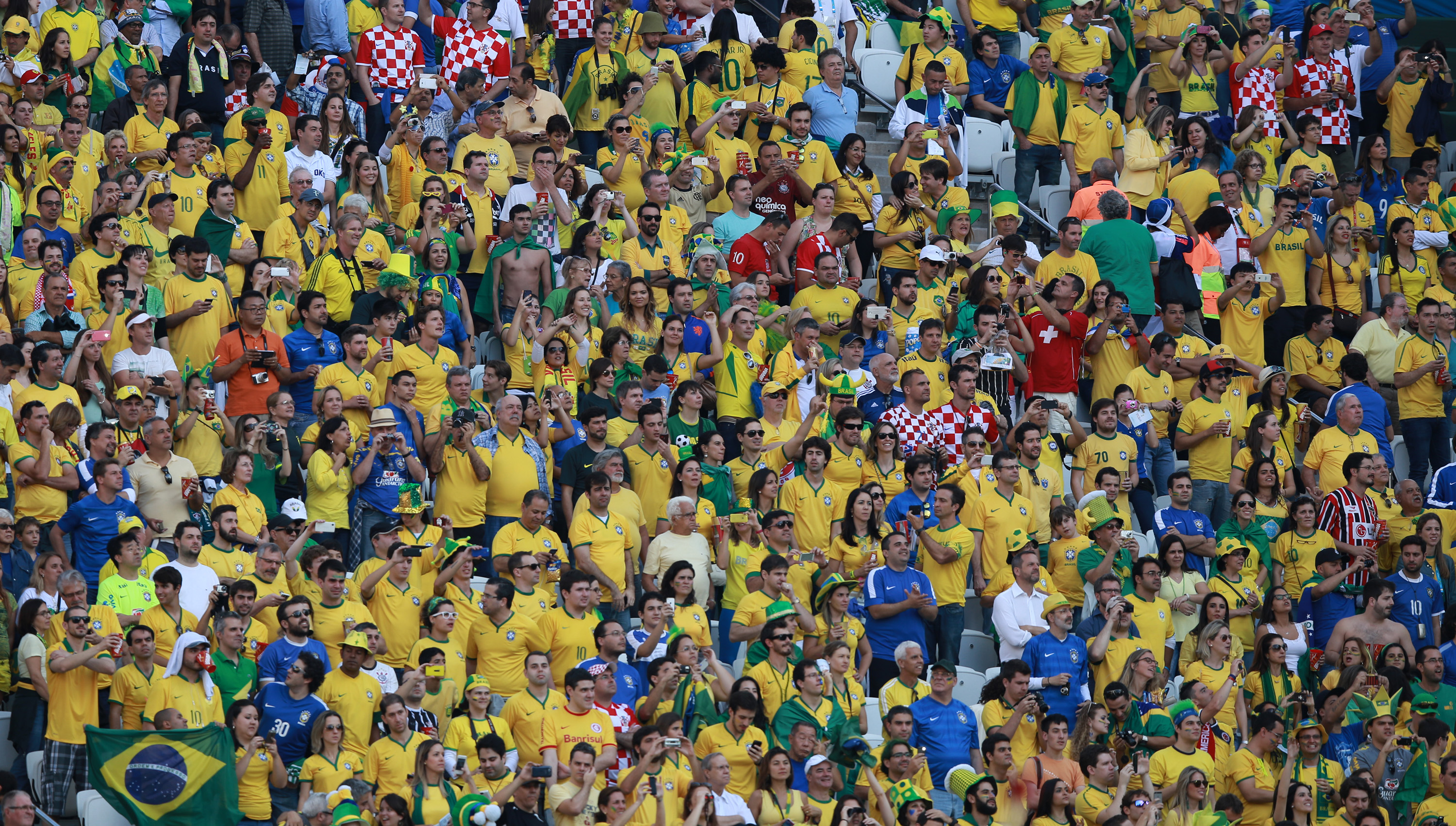 The opening ceremony of the FIFA World Cup 2014